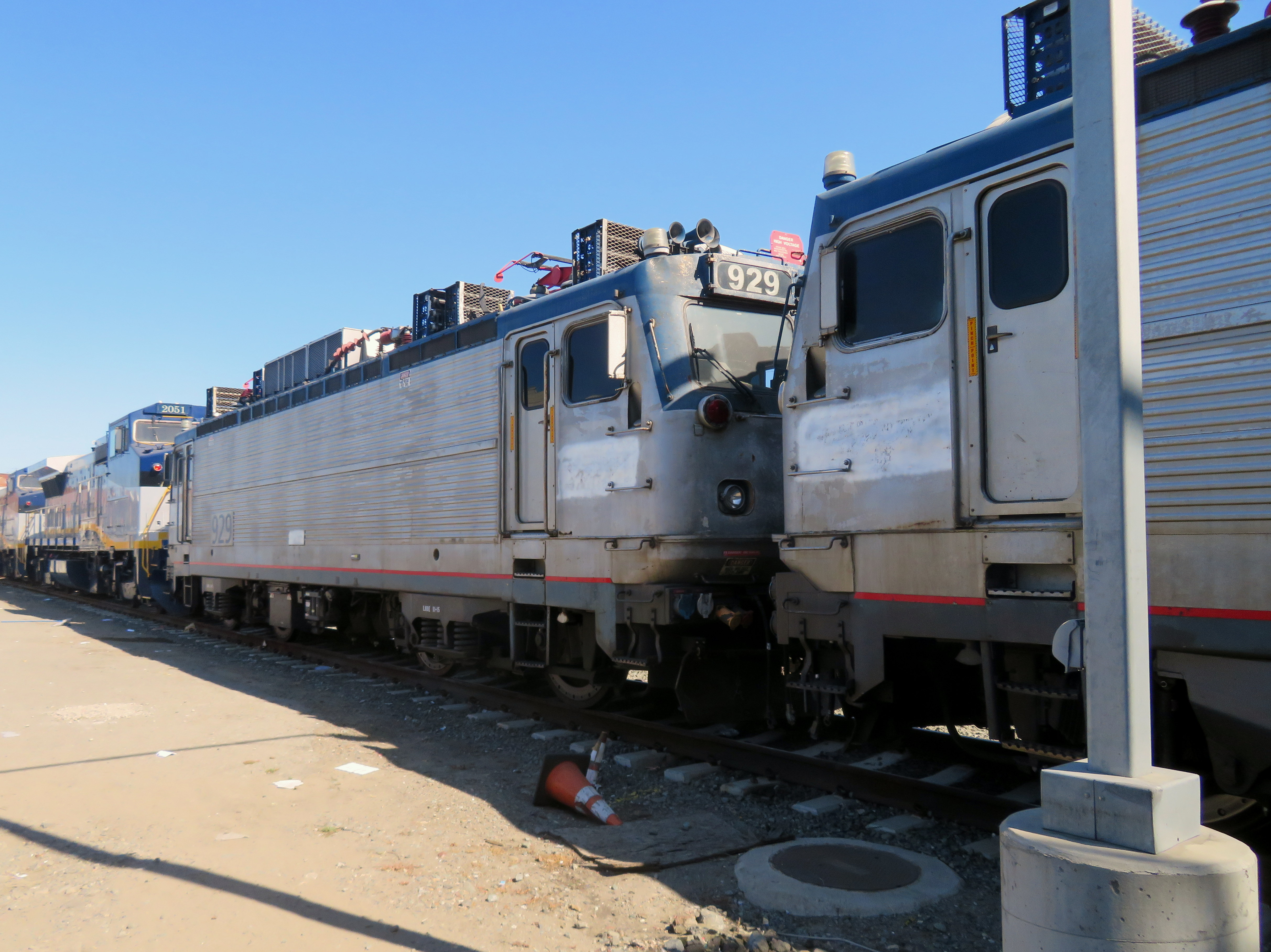 Ex-Amtrak AEM-7 locomotives #929 and #938 at Oakland Maintenance Facility in July 2019